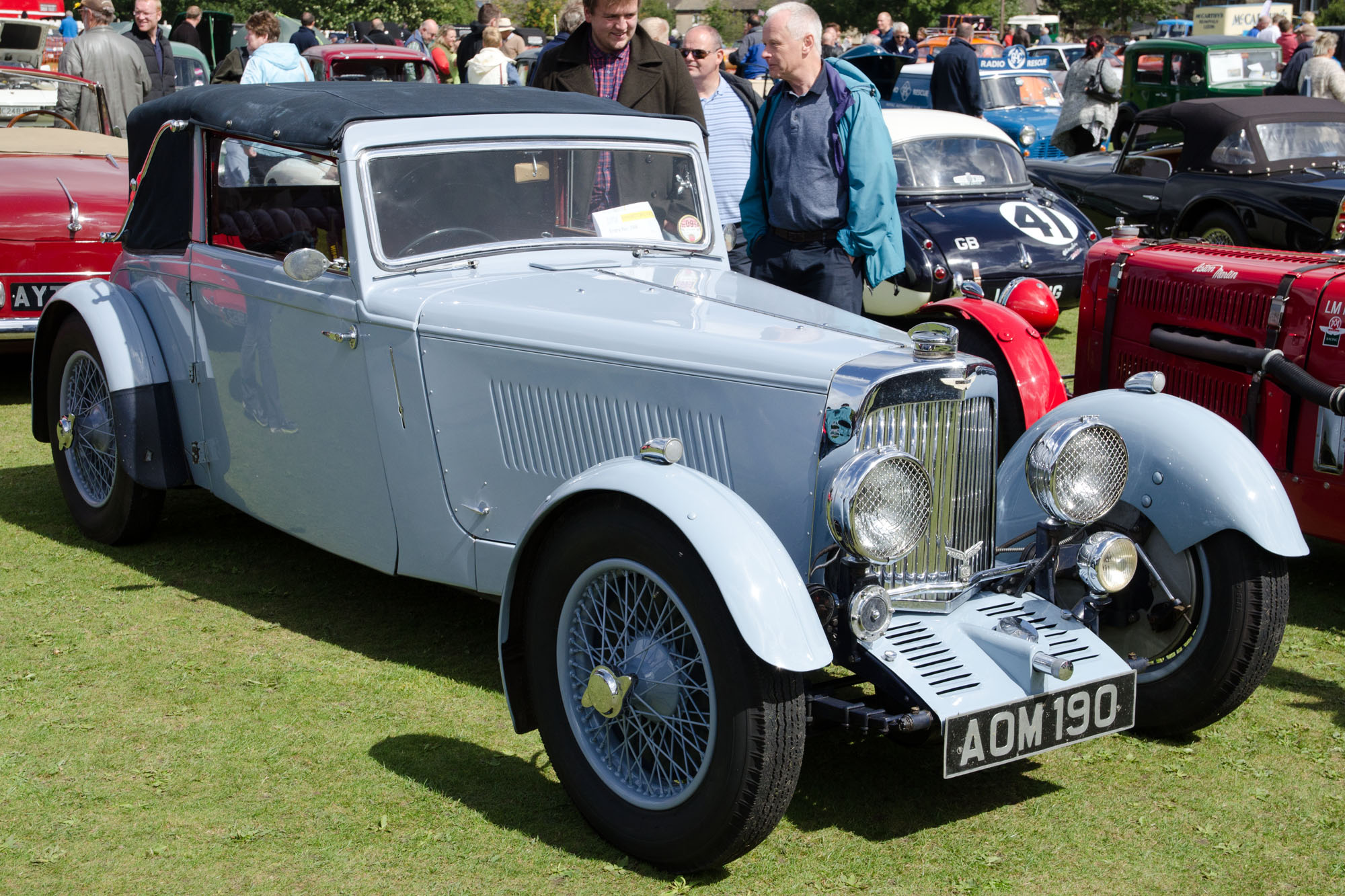 1934 Aston Martin 1½-litre mark II drophead coupé (DVLA) first registered 24 January 1935, 1495 cc